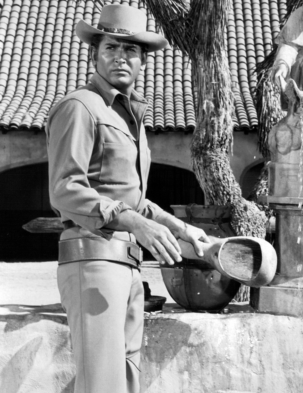 Photo of Michael Landon as Little Joe in the television series Bonanza.